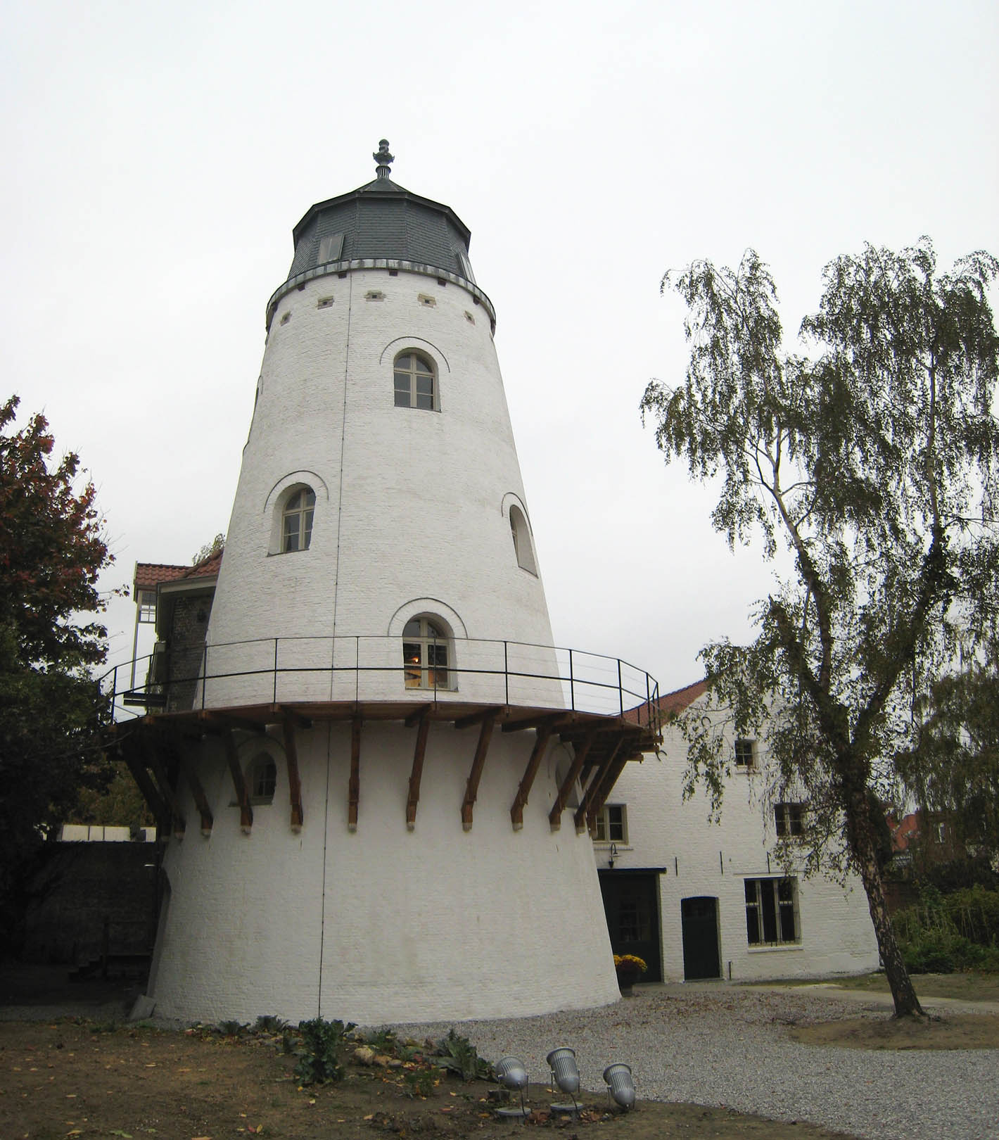 The old windmill of Evere. It was built in 1841, and the sails were removed during the 19th Century. It reopened in September 2008 as the Musée bruxellois du Moulin et de l’Alimentation.